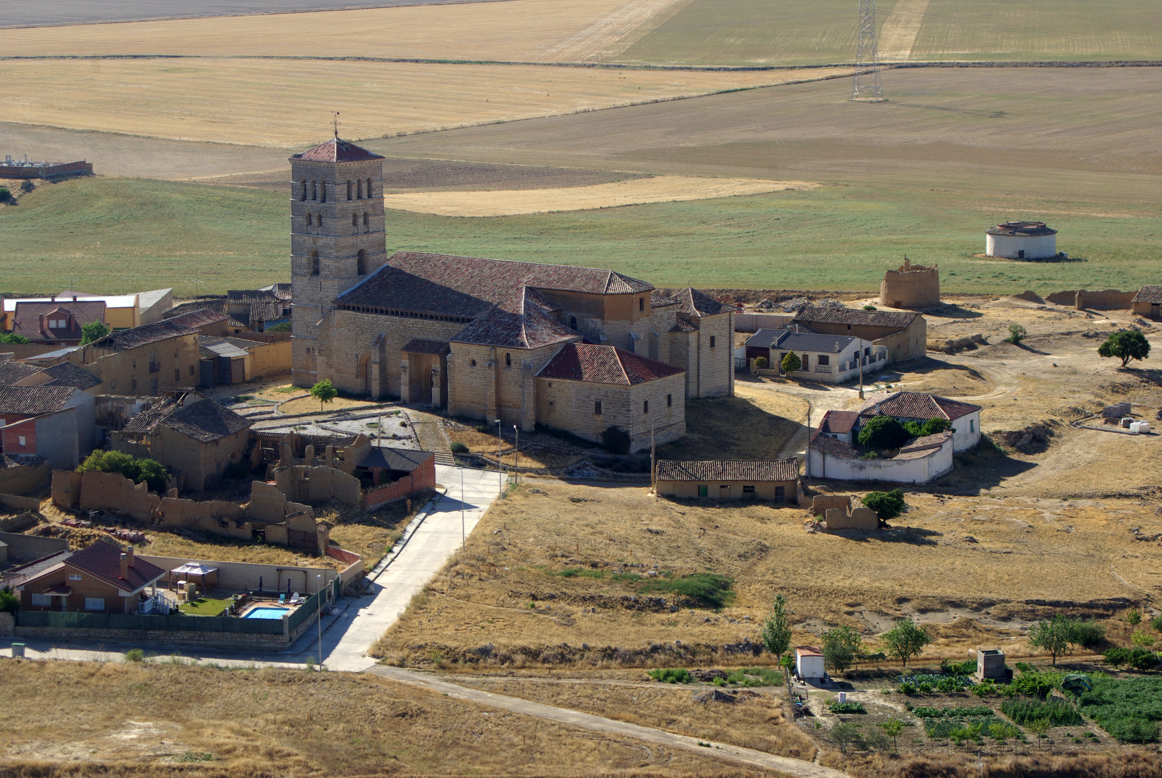 Our Lady of Castle church in Torremormojón. (Palencia, Spain)